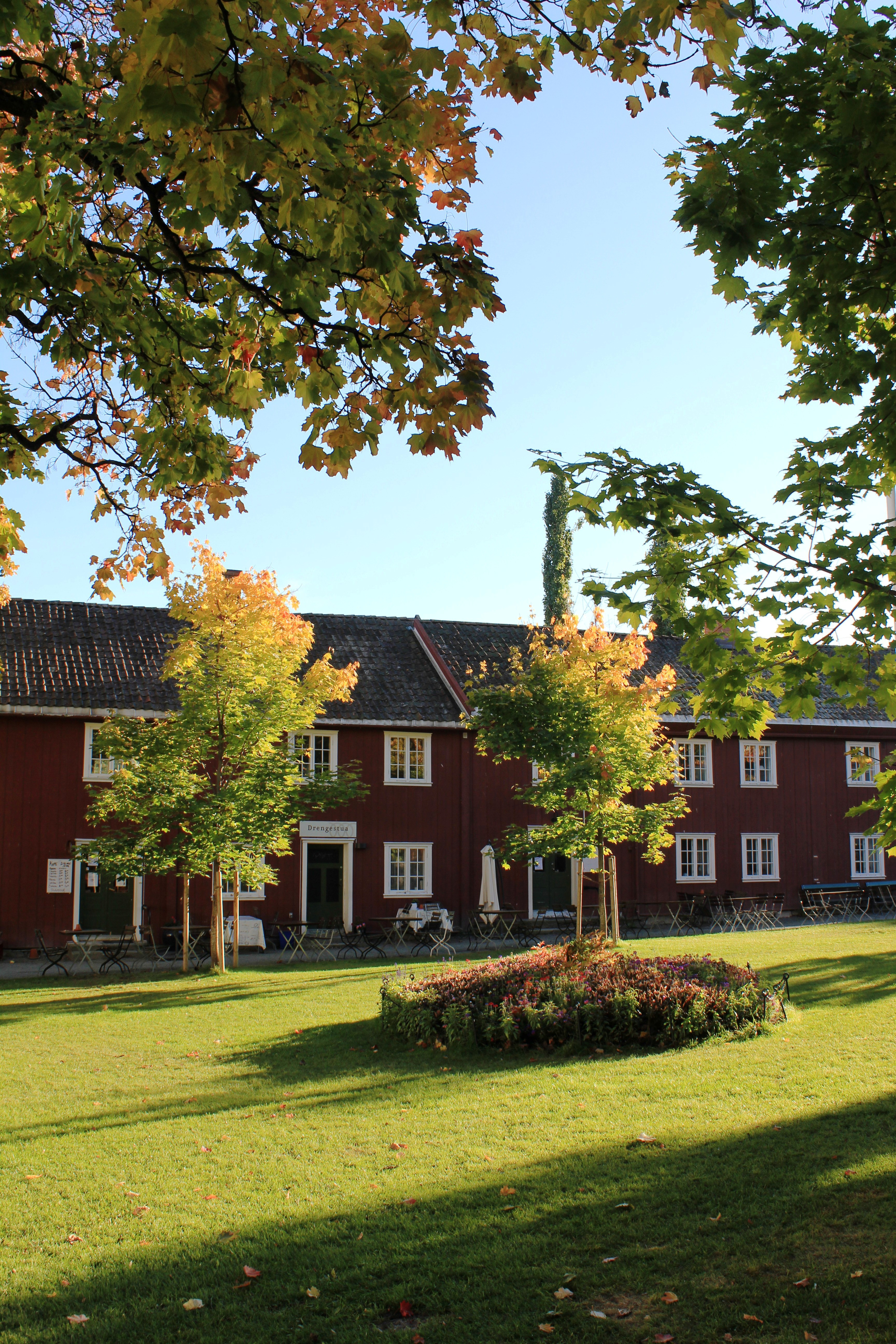 Gjøvik Gård is the central park of Gjøvik, Oppland, Norway.